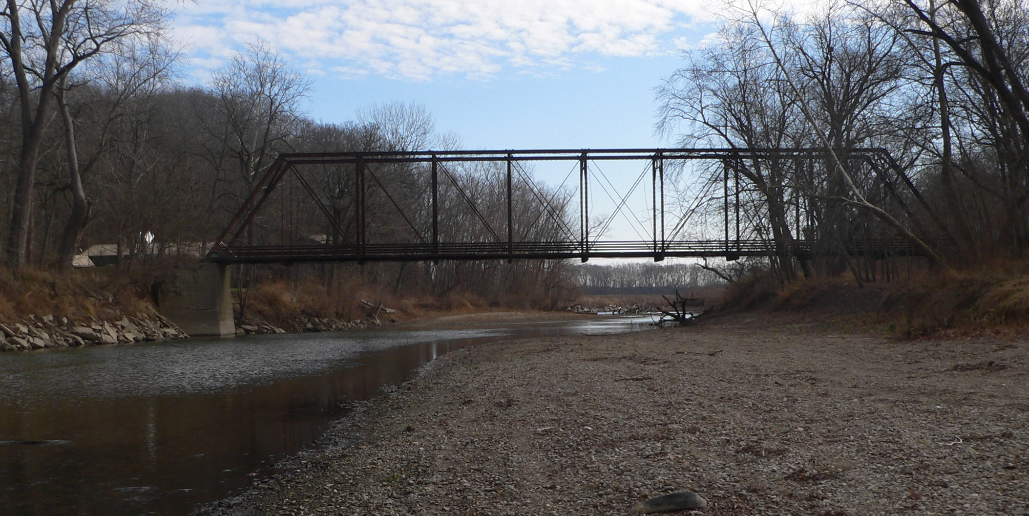 Waltmire Bridge, located south of Tremont in Tazewell County, Illinois. The bridge carries a county road named Locust across the Mackinaw River. The bridge is oriented northeast-southwest; the river flows generally northwestward at this point. View in the photo is from the northwest, looking upstream.